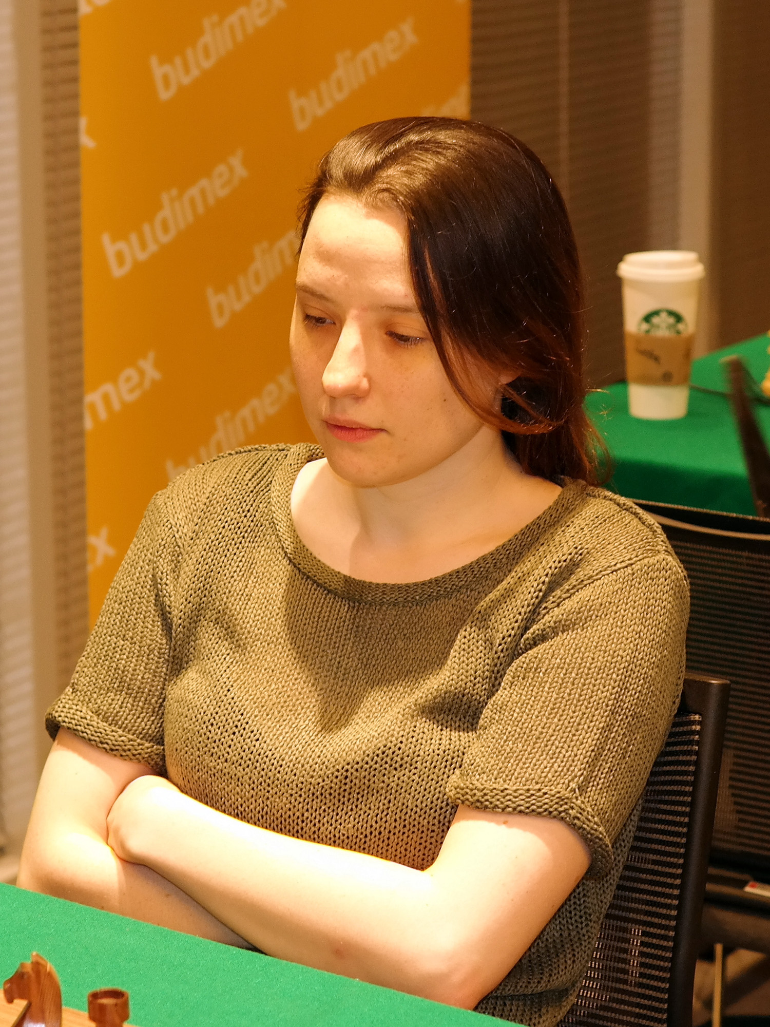 WGM Jolanta Zawadzka, Polish Chess Championship, Warsaw 2014